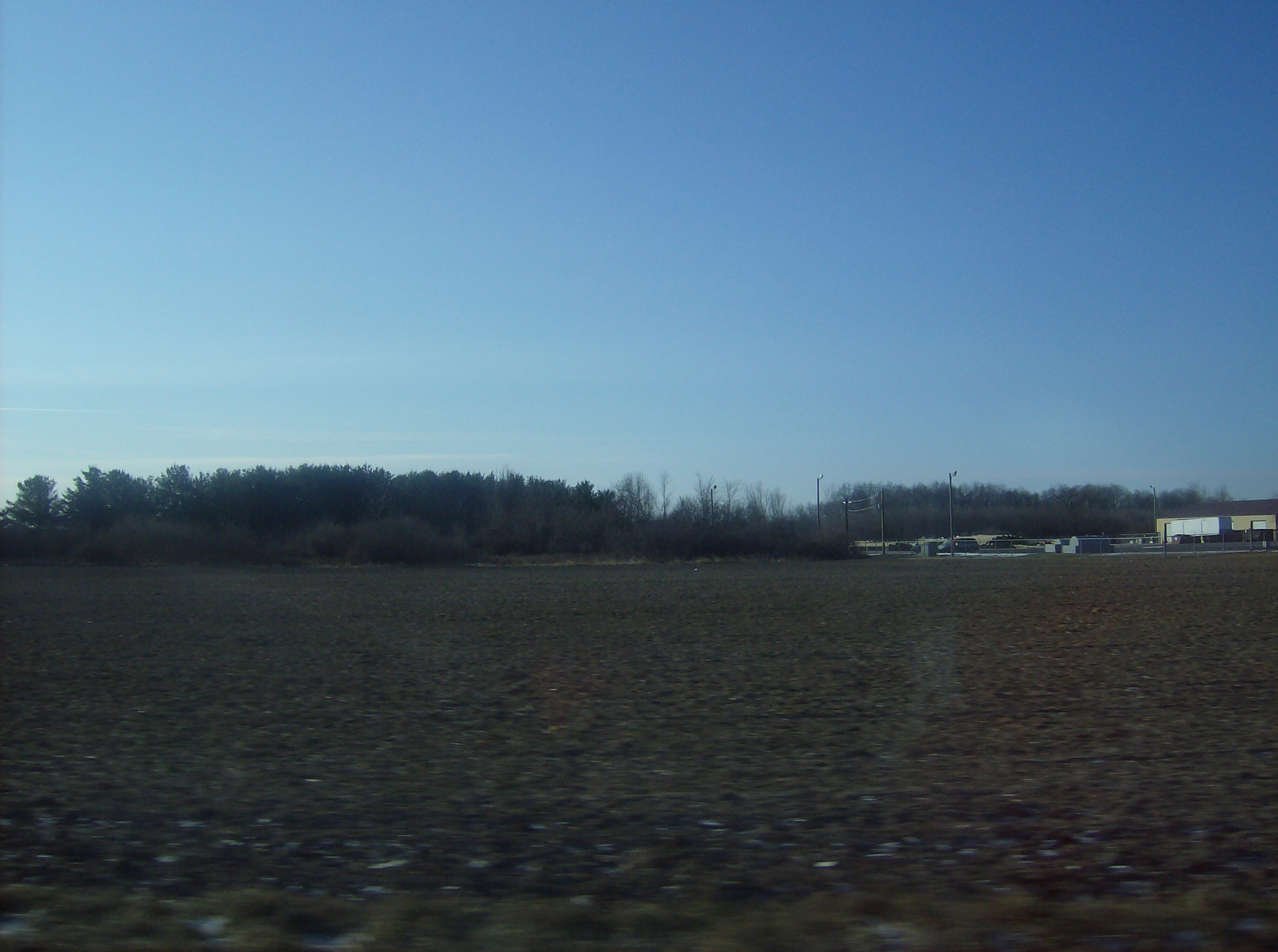 Countryside in northeastern Rock Creek Township, Huntington County, Indiana, United States. Picture taken southward from U.S. Route 224.